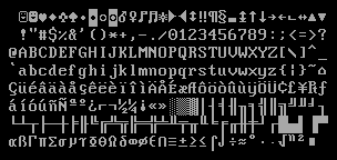 Full character set of code page 437, as displayed by an IBM PC